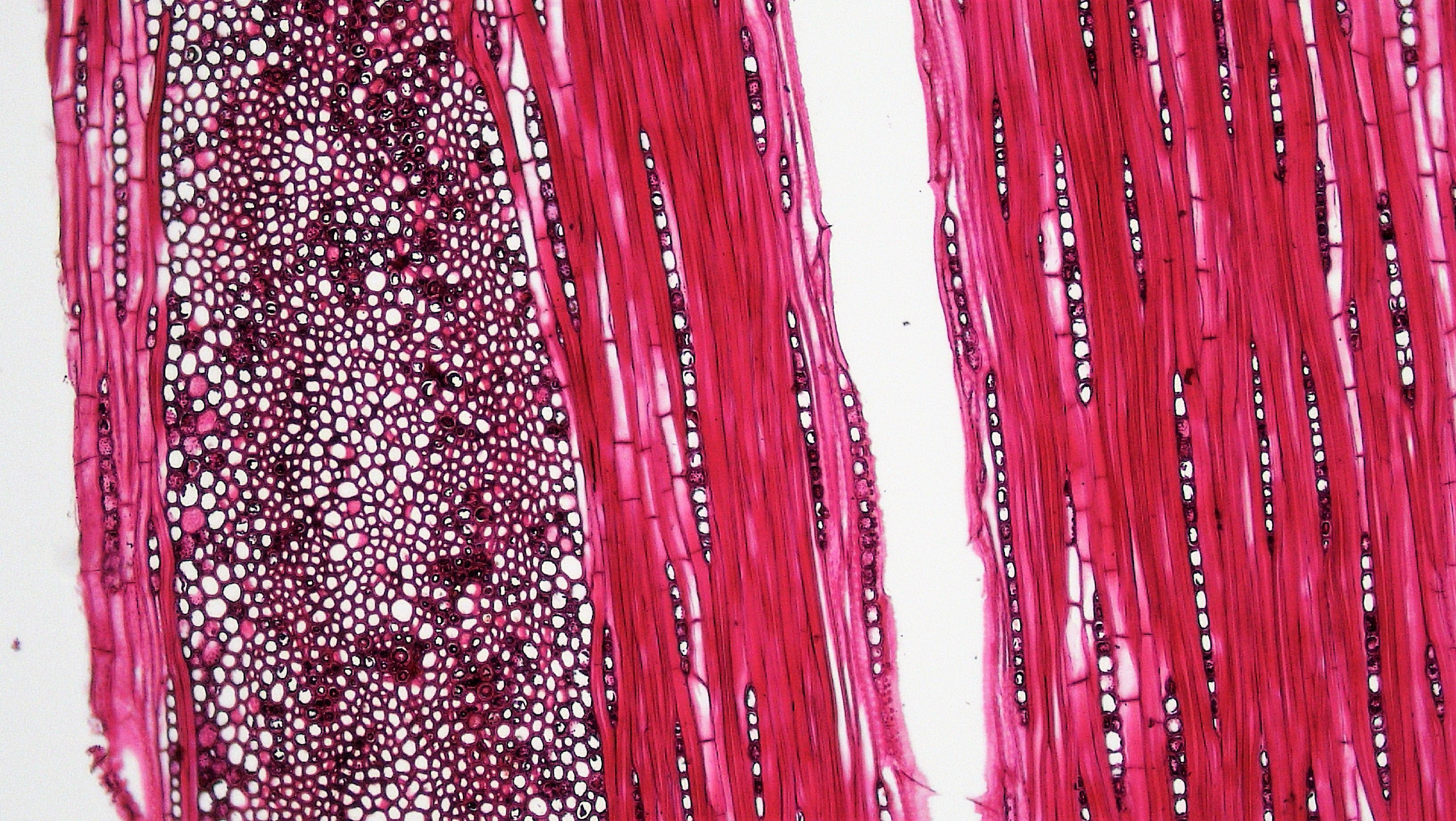 Tangential section: Quercus stem wood Magnification: 100x iron-alum hematoxylin and safranin stain The differences between heavy walled fibers, and medium and light walled tracheids are more easily discerned in a tangential section. Longitudinally oriented bands of narrow, pale staining tracheids are inter spaced with patches of dark staining xylem fibers (labriform). A medium size xylem vessel can be seen in the center of the field. Emerging at right angles are numerous narrow xylem rays. A massive multiseriate ray is visible in the left field of view. Rays are largely composed of living parenchyma cells.